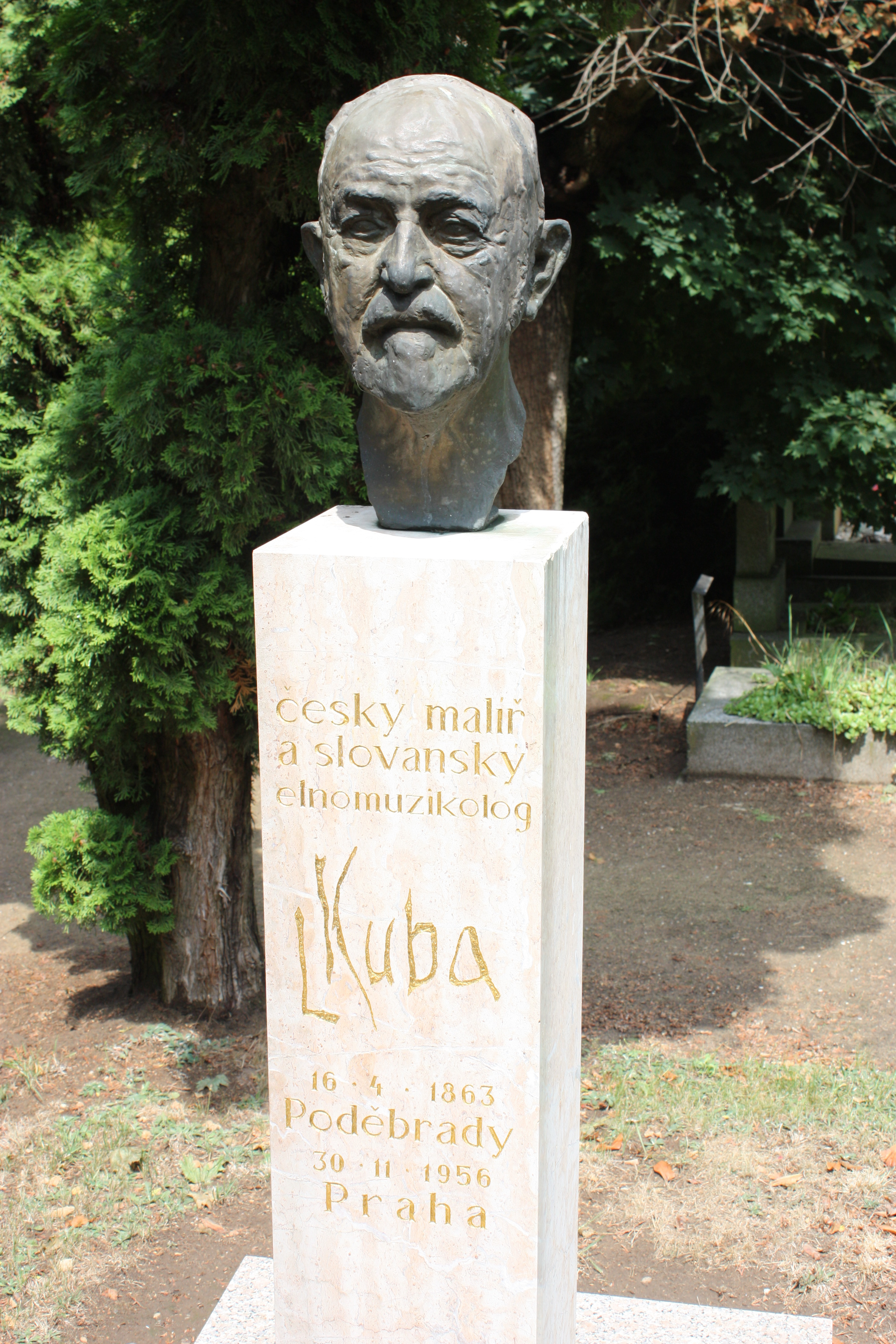 Bust and tomb of czech painter and musicolog Ludvík Kuba in Poděbrady Cemetery.